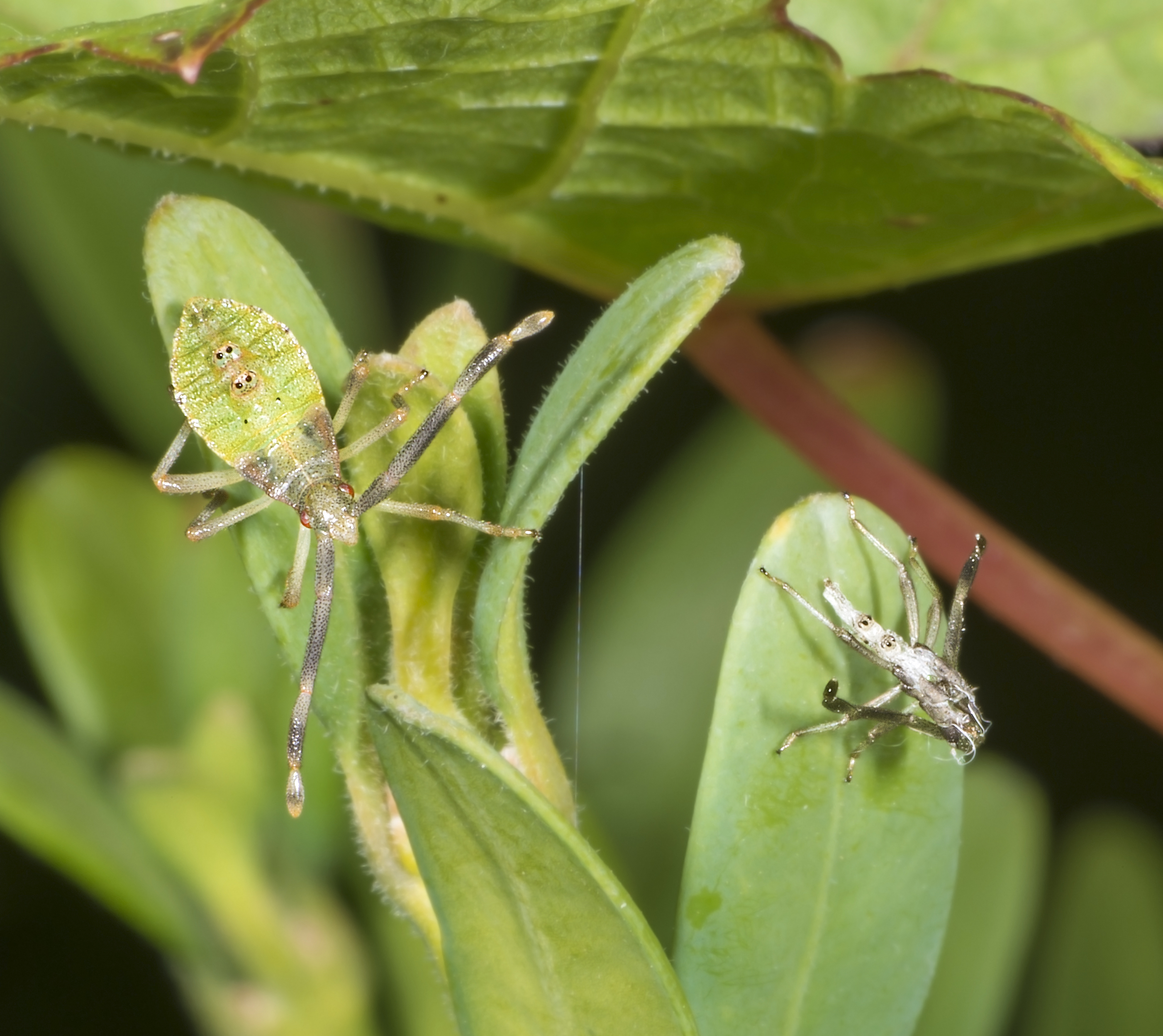 Gonocerus acuteangulus. Nymph with exuvia.